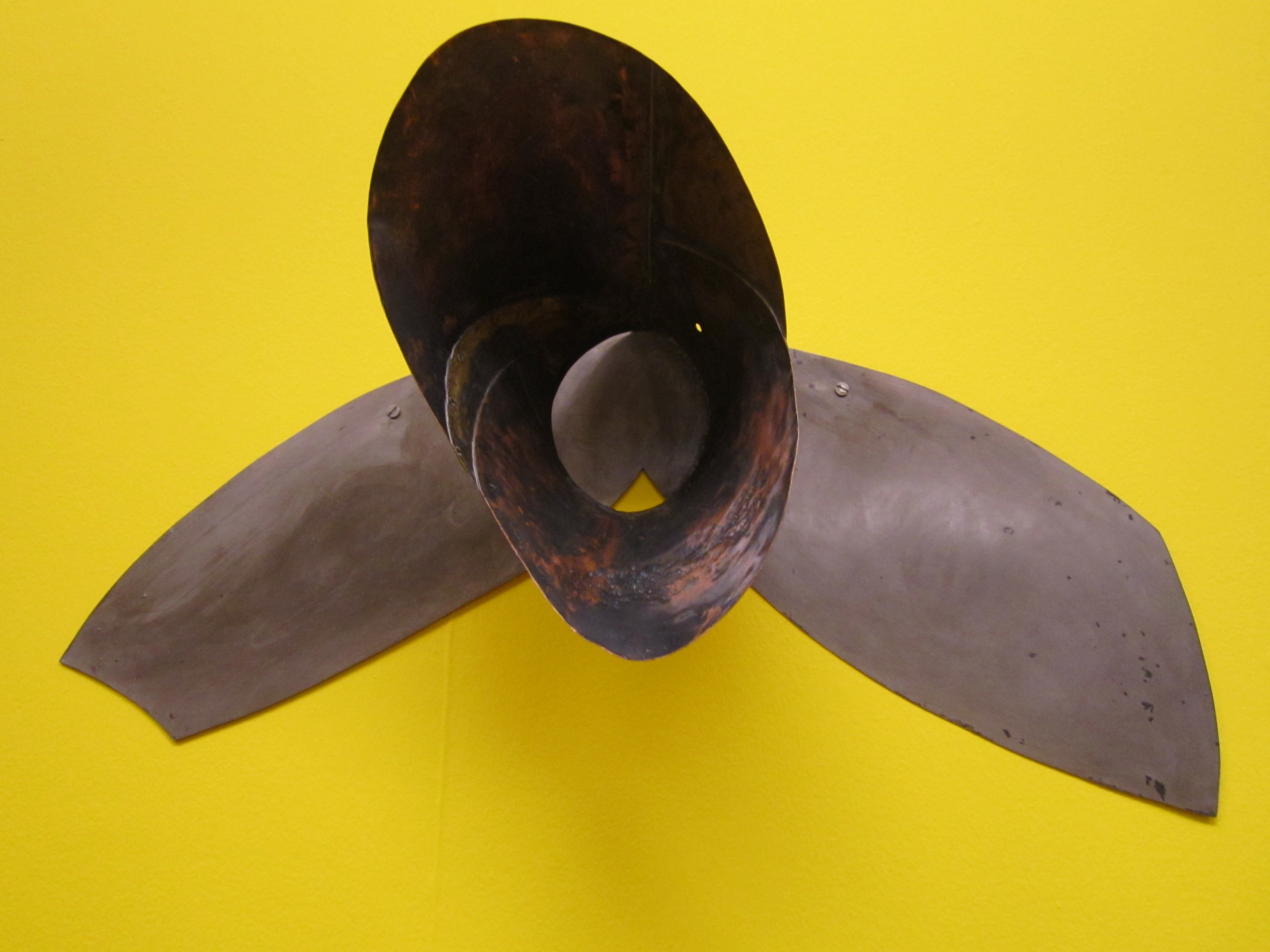 On the Day by Alison Wilding, Tate Liverpool, England.